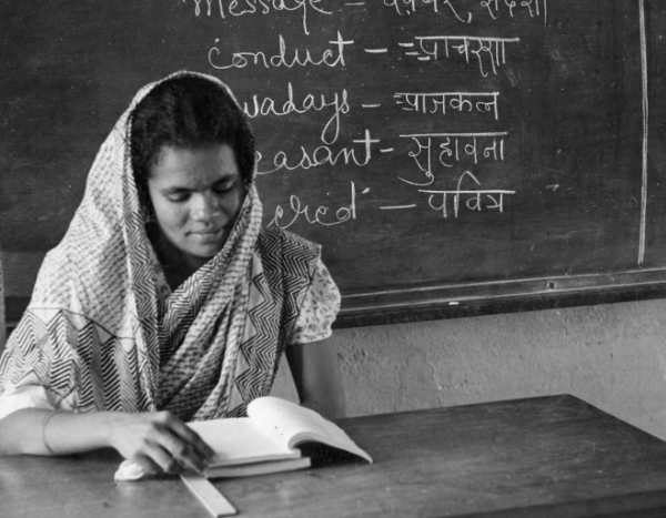 Caption: Helen Bisahu teaches English. Citation: Mennonite Board of Missions Photographs, 1898-1967. IV-10-007.2 Box 4 Folder 13. Mennonite Church USA Archives - Goshen. Goshen, Indiana.